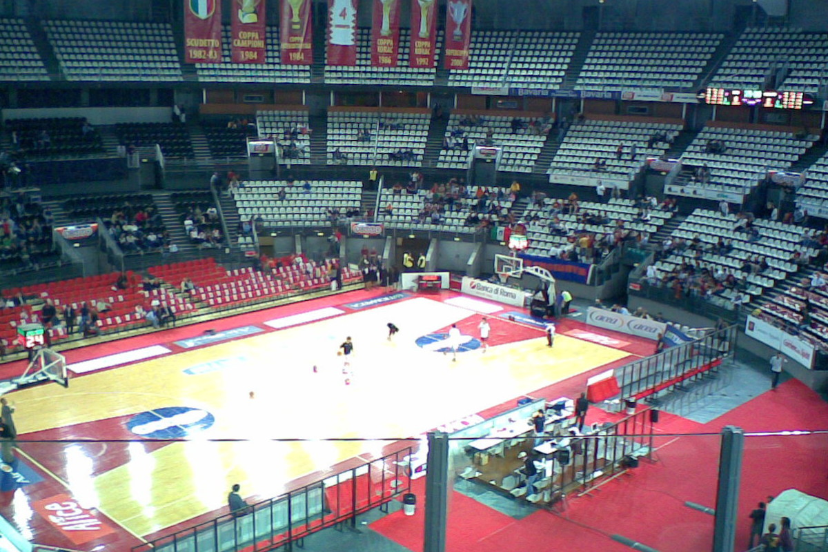 Picture of Rome's PalaLottomatica before the basketball playoff match Virtus Roma - Avellino (2007-08 League)